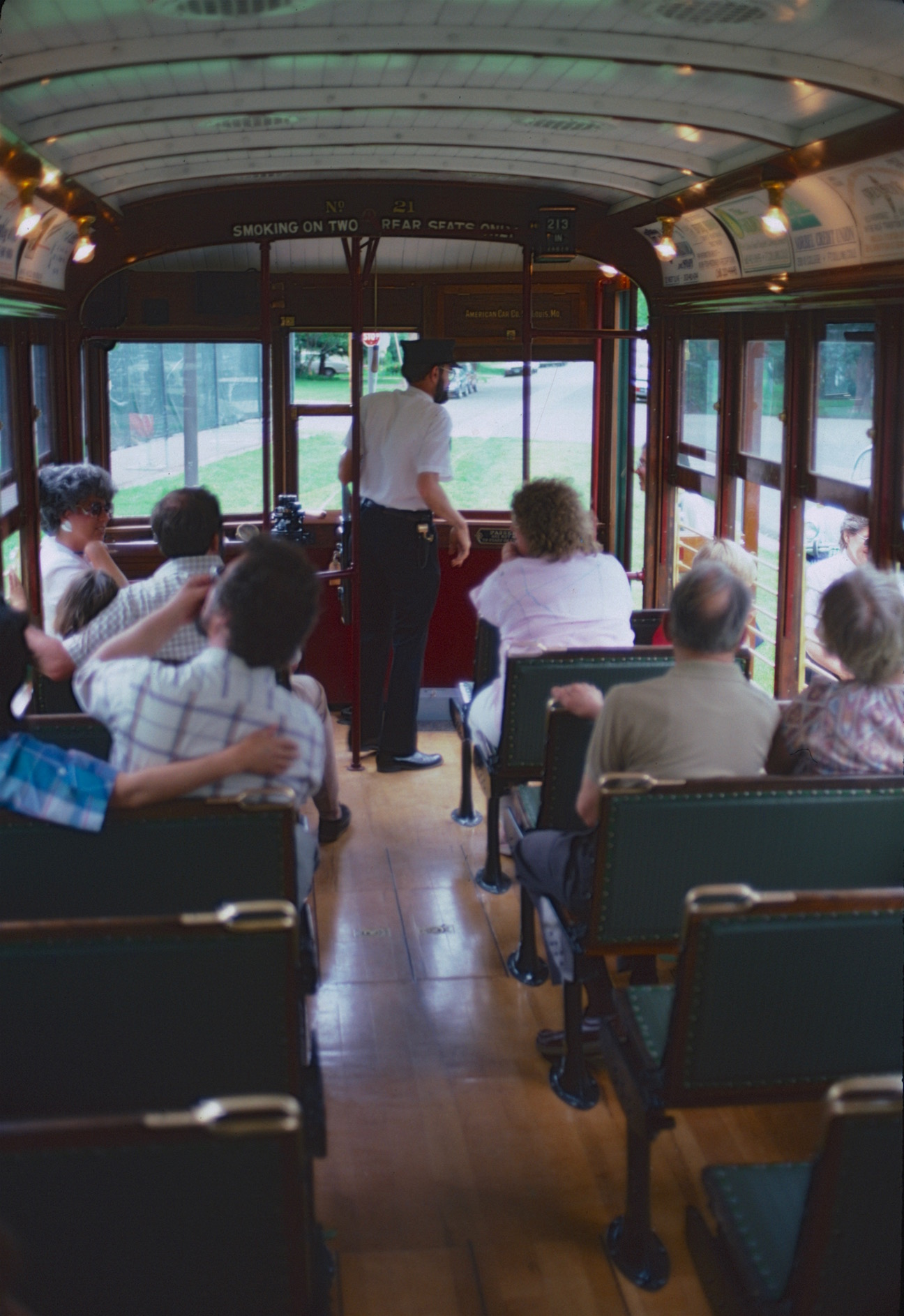 Interior of Fort Collins Municipal Railway Birney Safety Streetcar No. 21, a 1919 streetcar that is listed on the U.S. National Register of Historic Places. This photo was taken at the City Park terminus of the heritage trolley line that opened in December 1984, while the car was waiting to depart on its next trip.